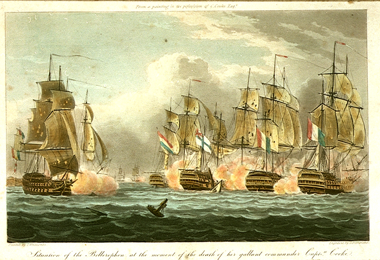 HMS Bellerophon during the Battle of Trafalgar, on 21 October 1805. Whitcombe purports to show her at the moment when her captain, John Cooke, was killed, at roughly 1.11 pm.